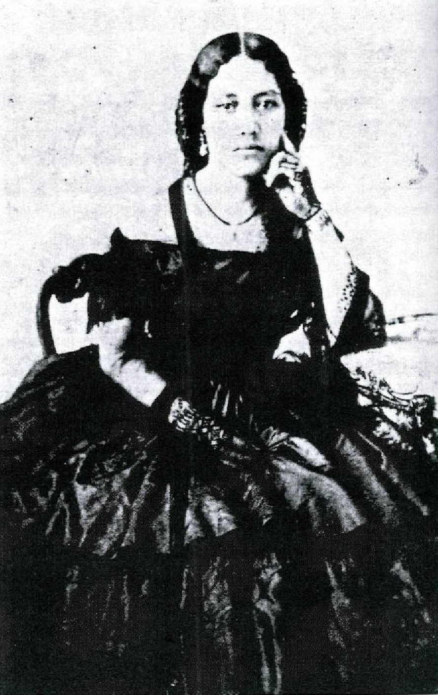 Photo of Princess Elizabeth attending the Chief's Chidrens' School (Royal School)